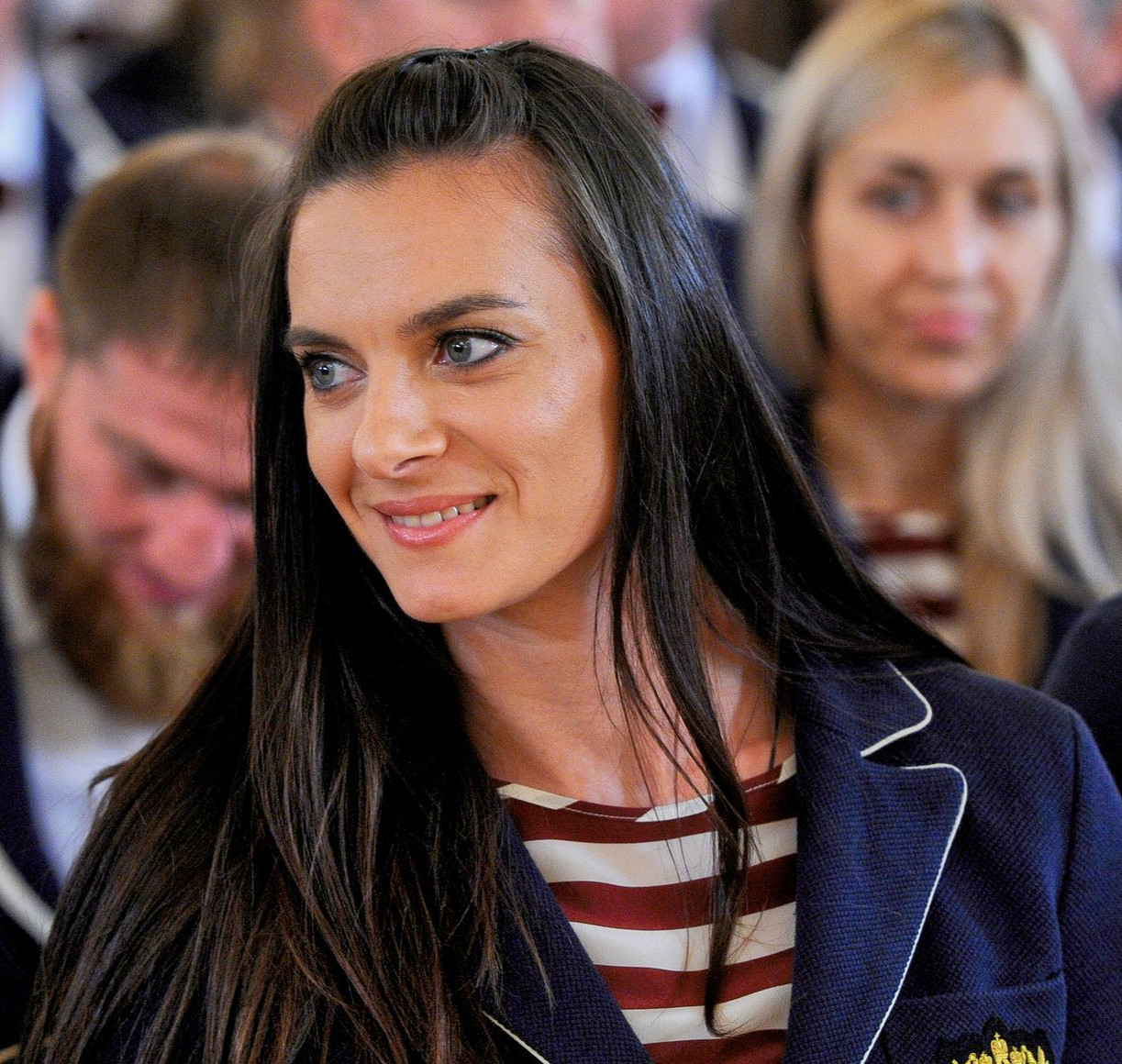 Elena Isinbaeva in Kremlin.